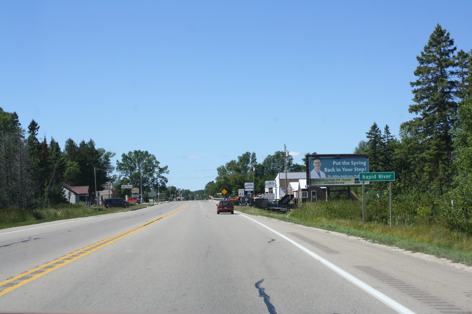 Looking west at the sign for Rapid River, Michigan along U.S. Route 2.